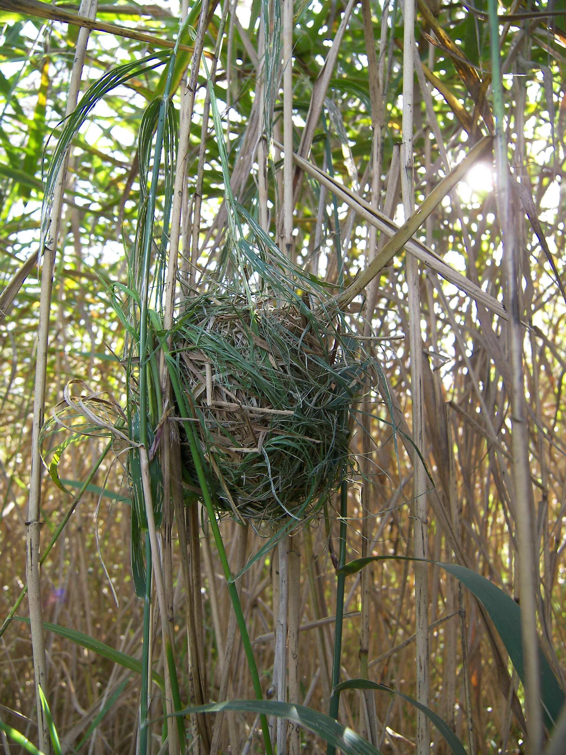 Micromys minutus summer nest